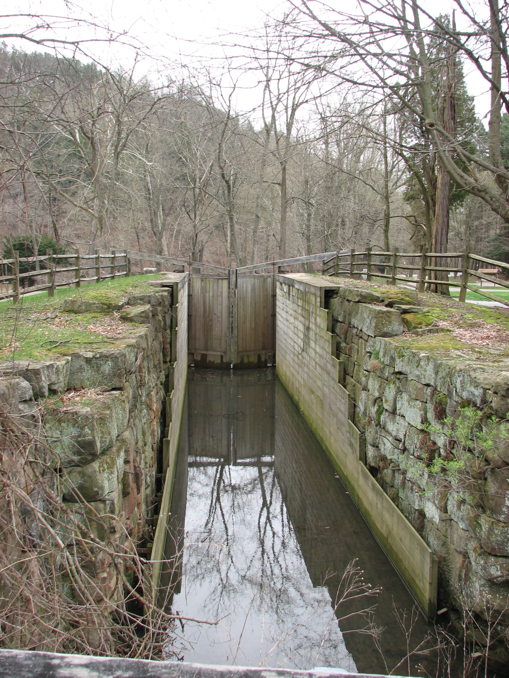 Photograph of Lock 36 on the Beaver Creek Canal. Beaver Creek State Park, Ohio